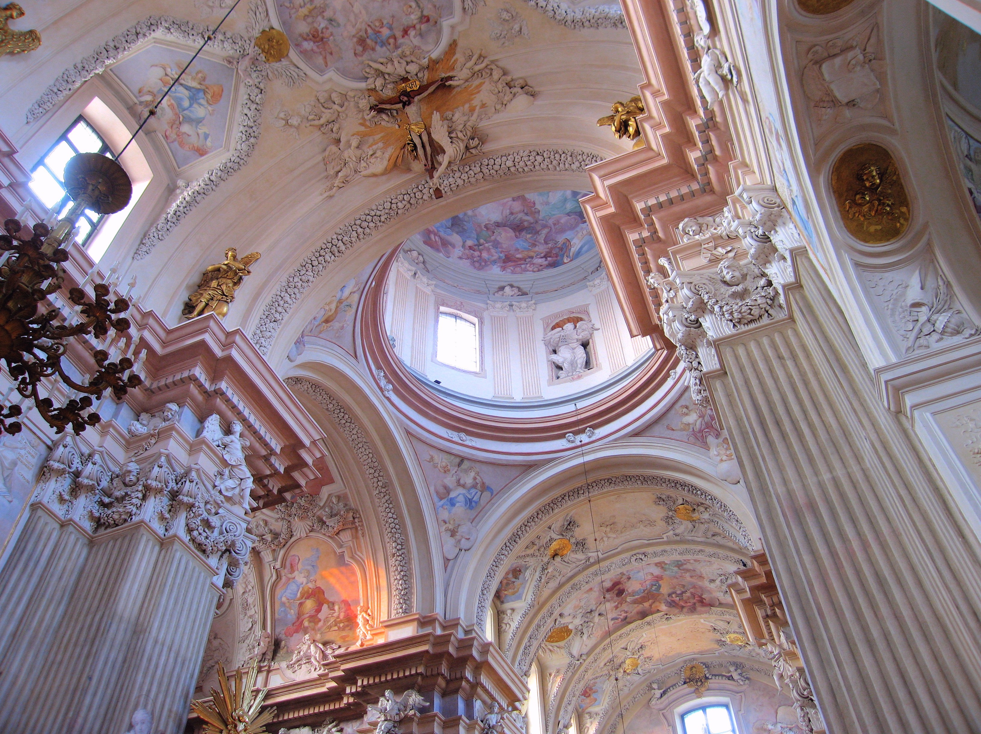 Interior of St. Anna's Church in Cracow - photo made in HDR technique